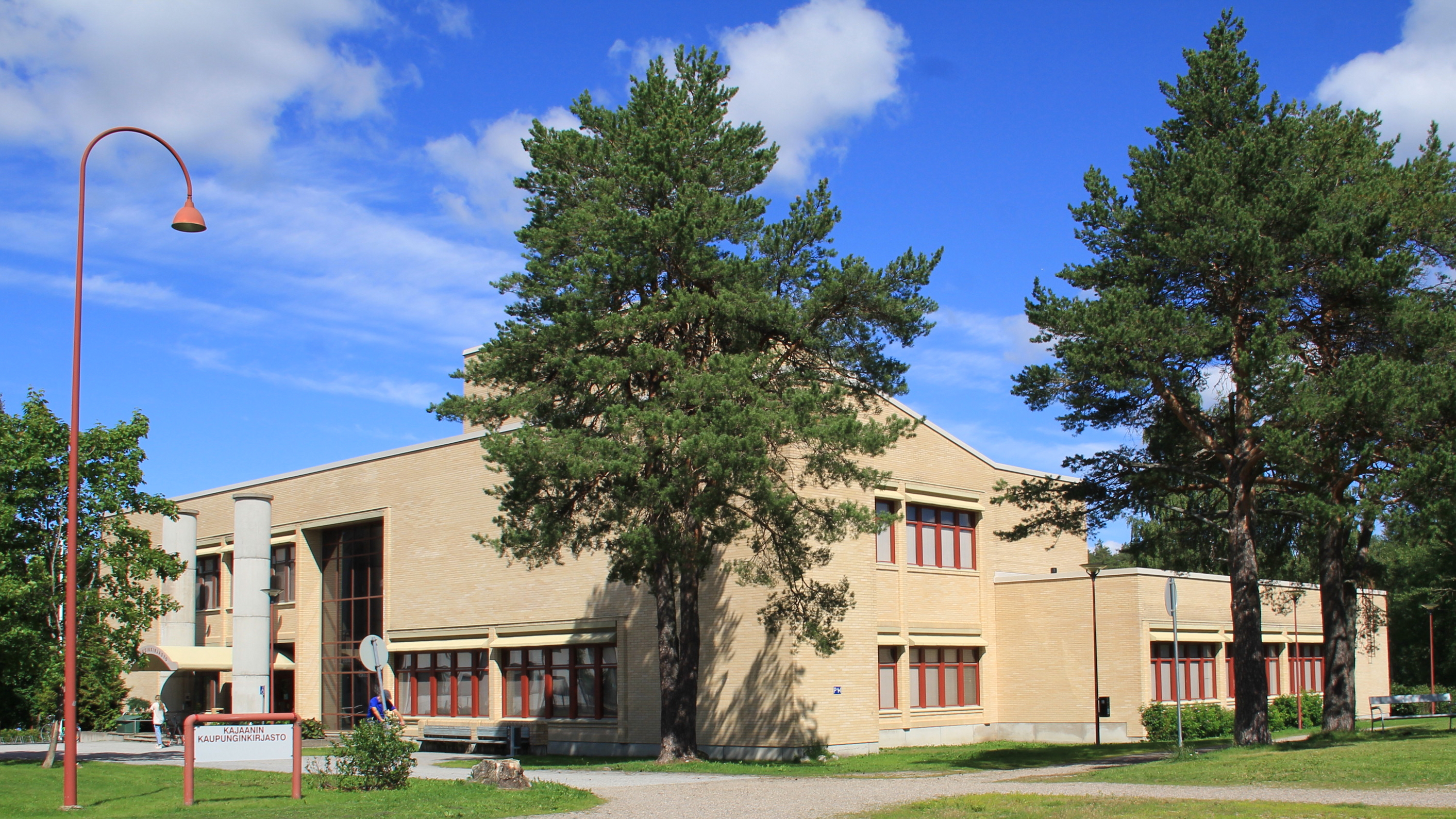 Kajaani main library, Kajaani, Finland.- Seen from south.